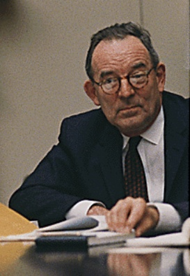 Walworth Barbour, US Ambassador to Israel 1961-1973, 1968 at the White House in a Hearing. cropped